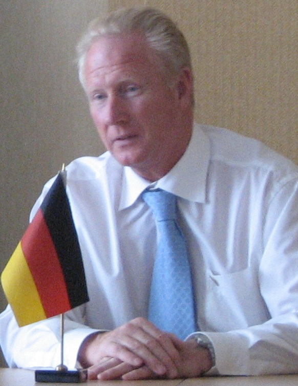 A photo of Ulrich Tholuck, taken in Kaliningrad in August 2007.